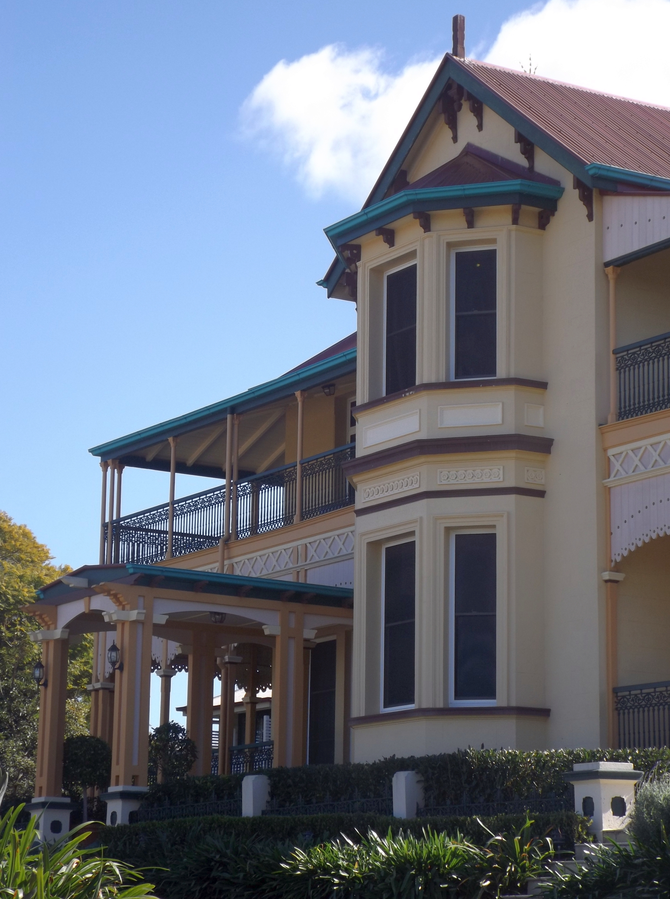 Photo of the front of Boothville House at Windsor, Brisbane, Queensland, Australia.